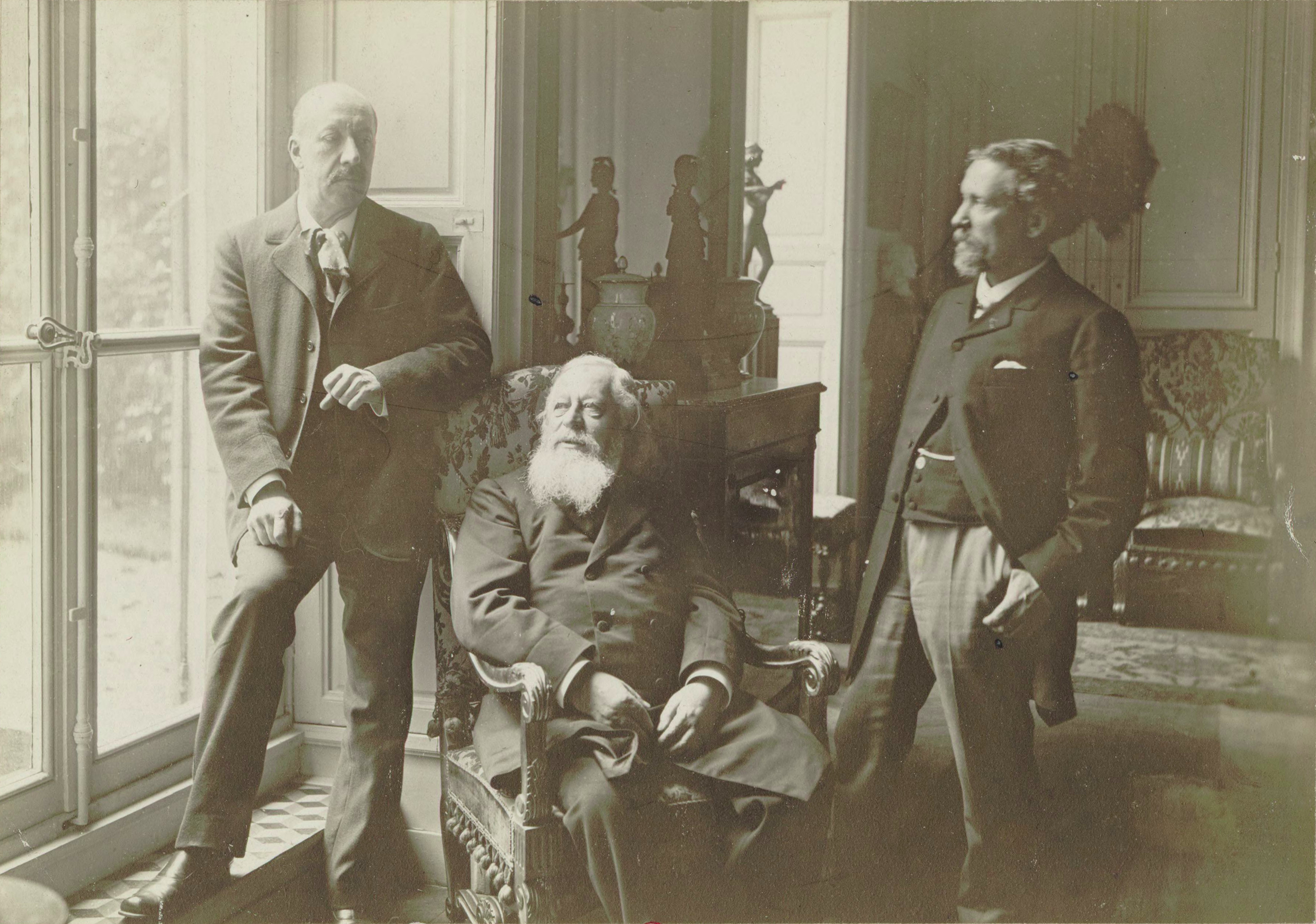 From left to right: Charles-Marie Widor (1844-1937), Alexandre Guilmant (1937-1911), Eugène Gigout (1844-1925).